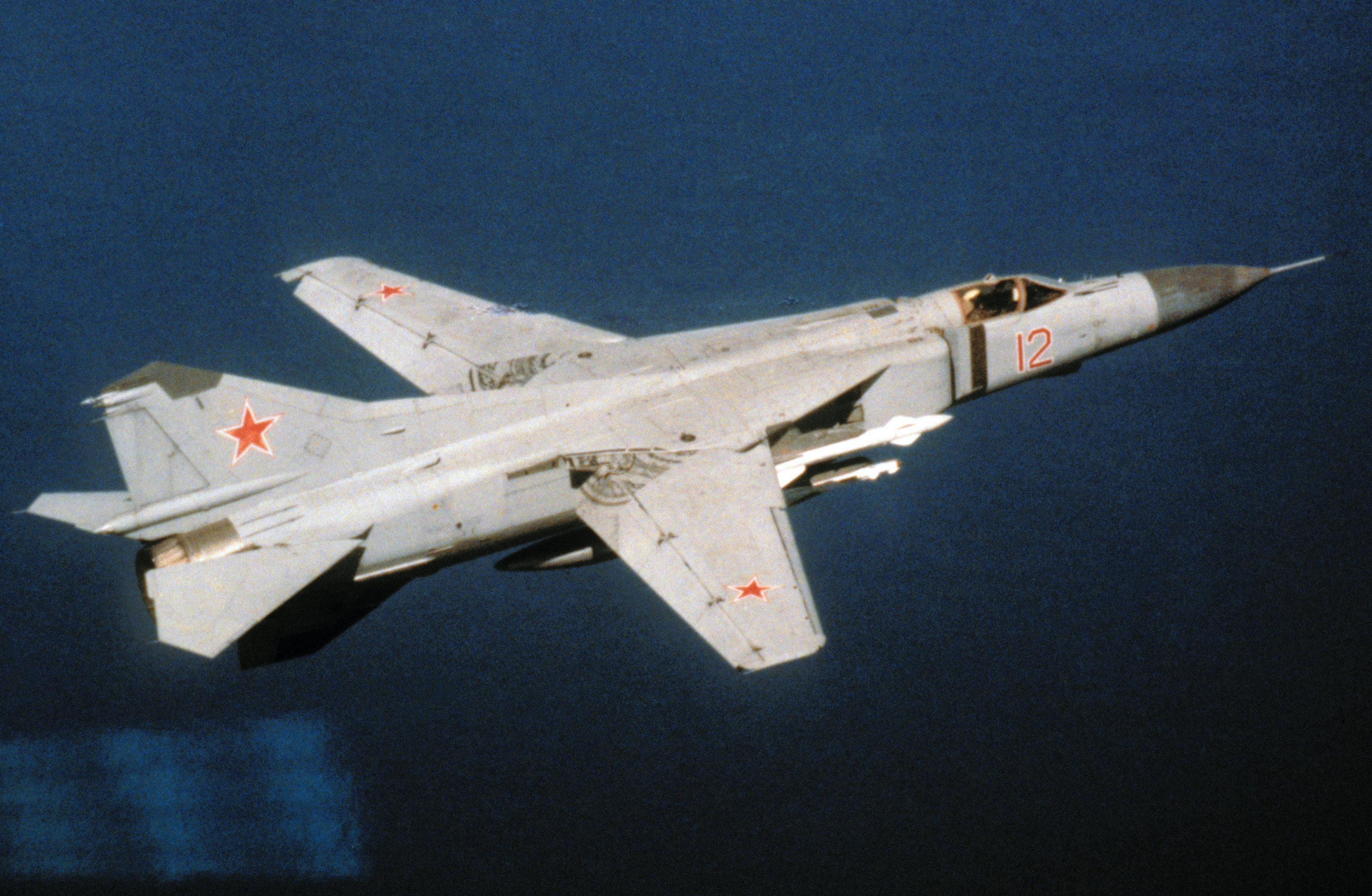 A Soviet Mikoyan-Gurevich MiG-23M "Flogger" in flight in 1989.